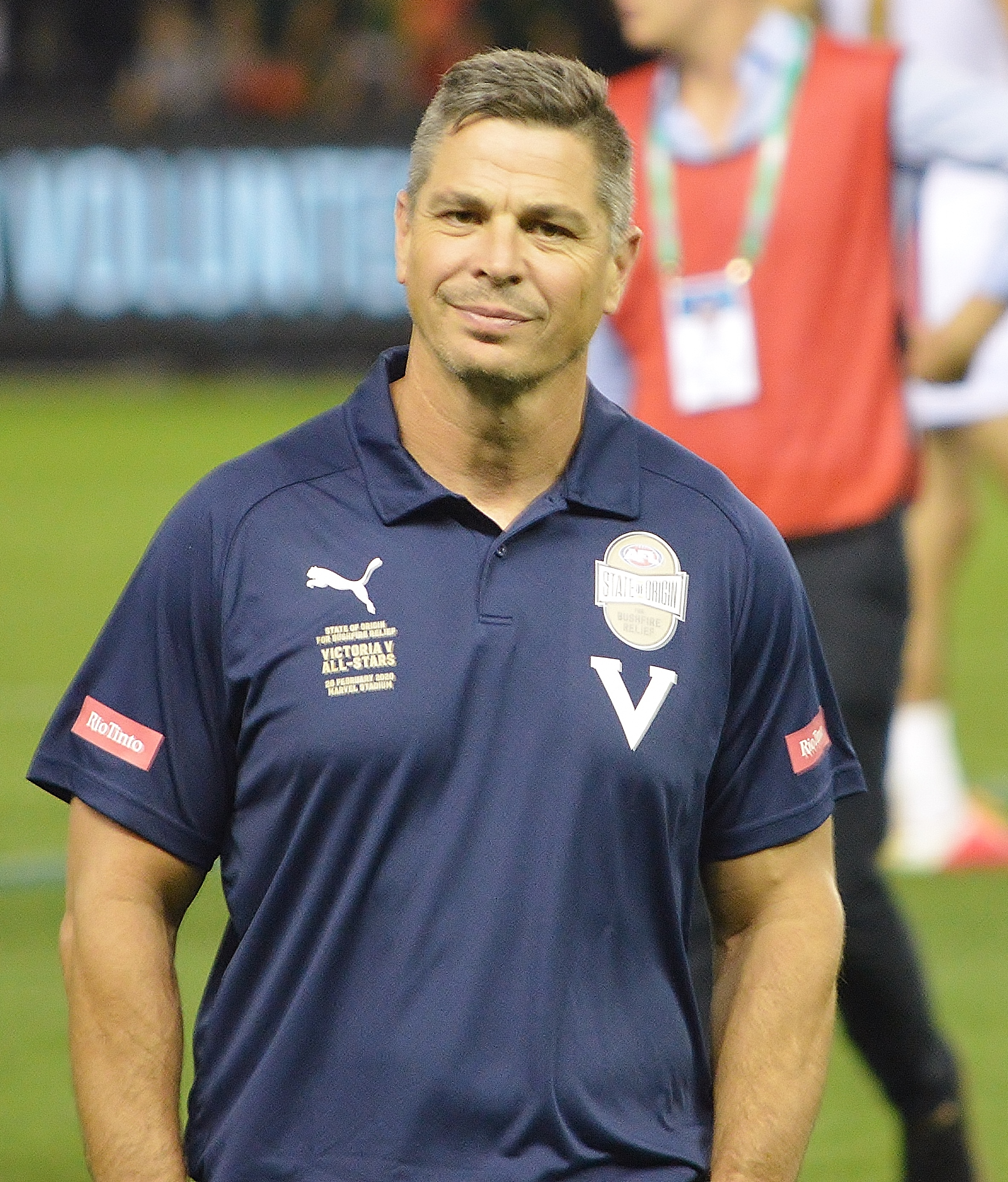 Adam Kingsley at the AFL State of Origin for Bushfire Relief Match at Marvel Stadium in February 2020.